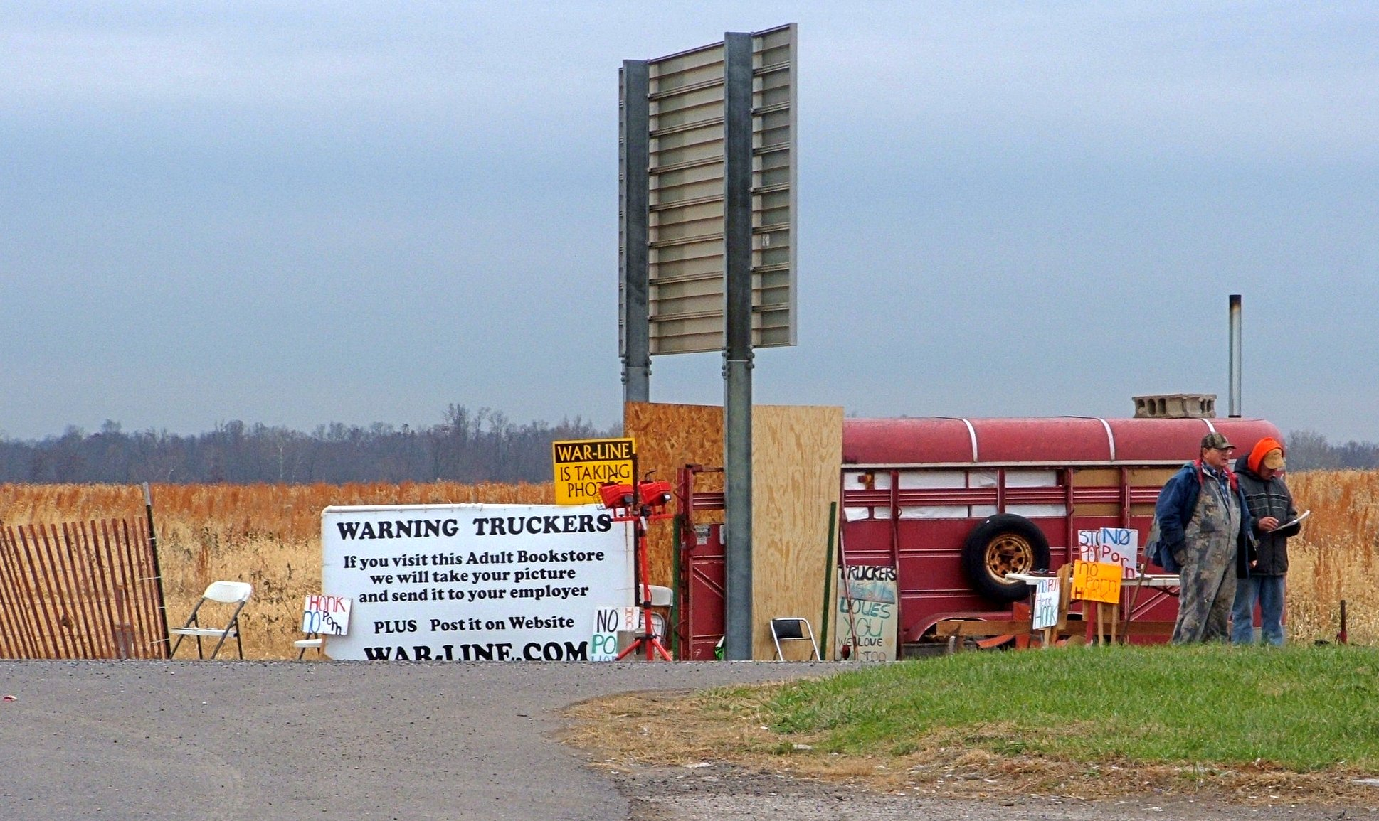 Poster reads: "Warning Truckers If you visit this Adult Bookstore we will take your picture and send it to your employer PLUS Post it on Website "